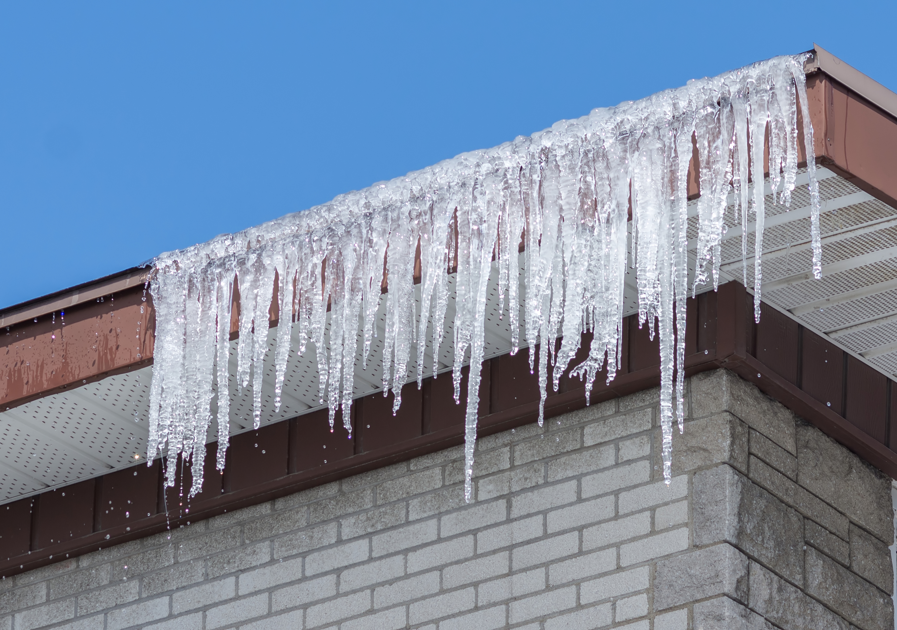 Ice stalactite